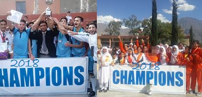 Public Schools and Colleges Jutial Gilgit, Pakistan